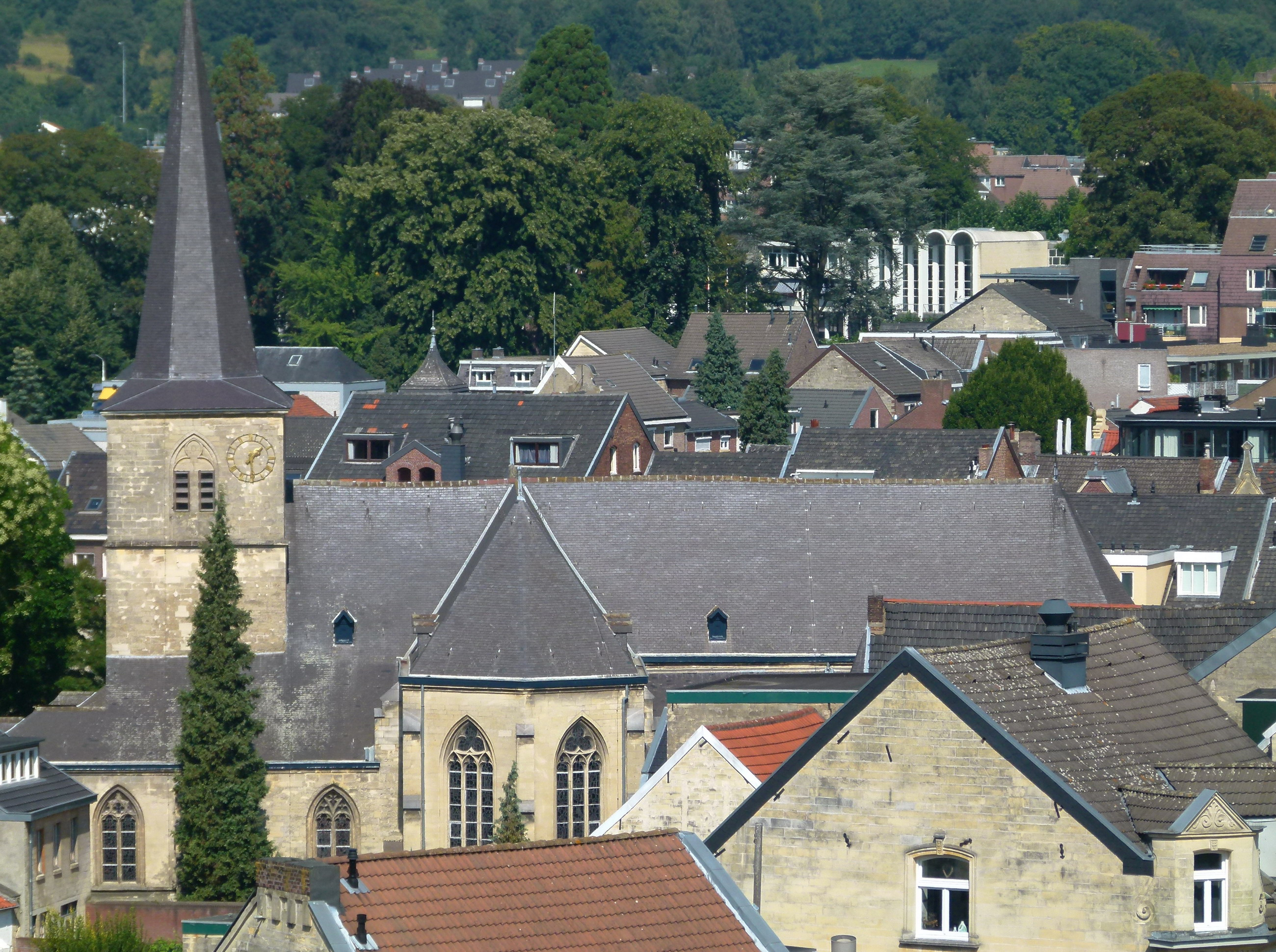 Valkenburg, Limburg, the Netherlands. View from Valkenburg Castle of the town center and the Church of Saint Nicholas and Sain Barbara.